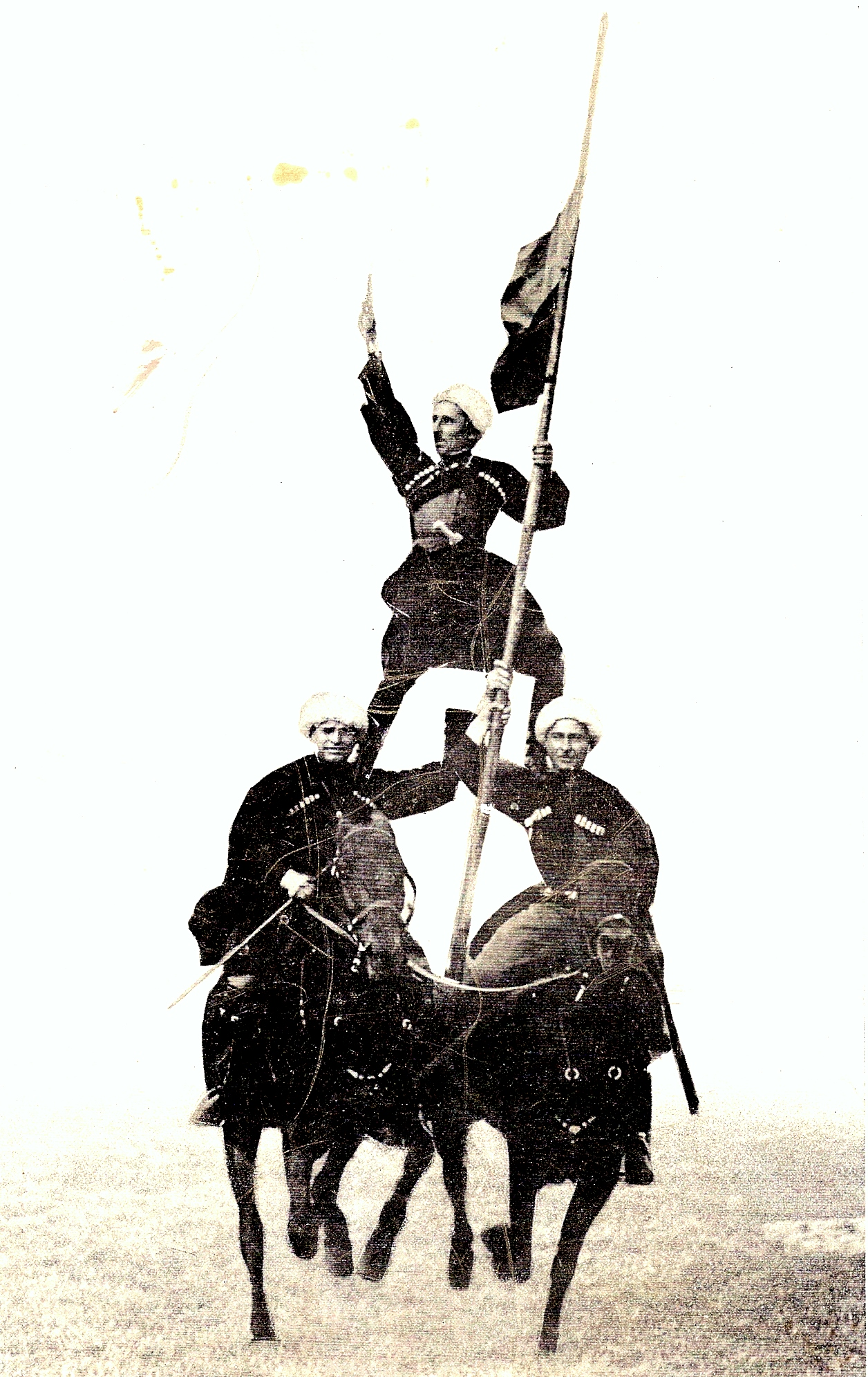 Three Cossacks doing a riding trick called "Little Pyramid".